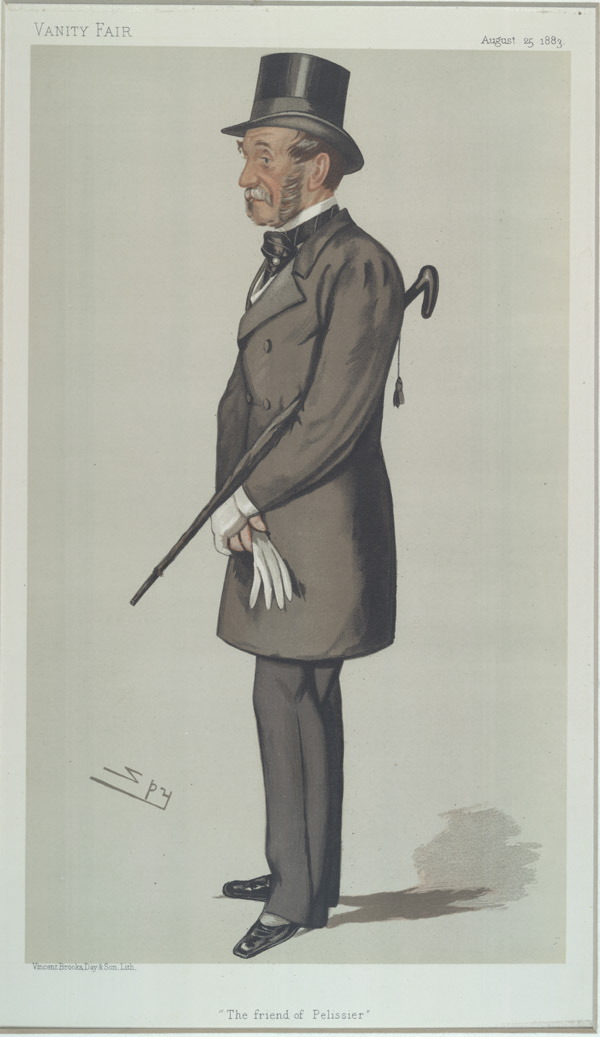 Men of the Day No.290: Caricature of Gen The Hon St George Gerald Foley (1814-1897), Governor of Guernsey [1]. Caption reads: "The friend of Pelissier"